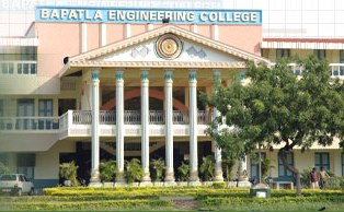 The Bapatla Engineering College, one of the seven educational institutions sponsored by the Bapatla Education Society, was established in 1981.